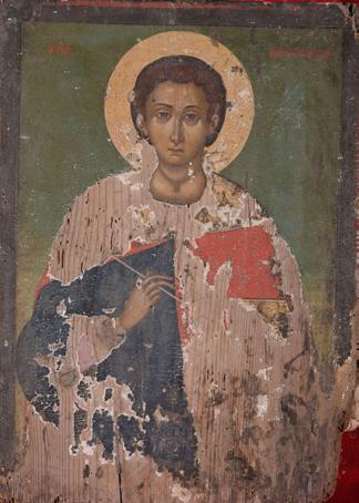 Saint Pantaleon Icon in Saint Kyriaki Church in Debrene